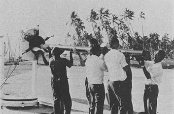 An Arcas rocket being loaded into launch tube, Thumba, India.